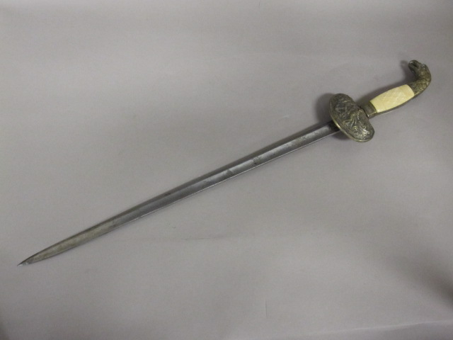 Accession 61-197-A Sword, Dress, Officer, Major General Ethan Allen. 23" H X 3.25" w The sword was presented to the USS ETHAN ALLEN (SSBN 608) and donated to the Navy by a descendent of Ethan Allen. It was accepted on board by Captain P.L. Lacy Jr, and CDR W.W. Behrens Jr on behalf of the Secretary of the Navy on the 18th of October 1961. Collection of Curator Branch, Naval History and Heritage Command.